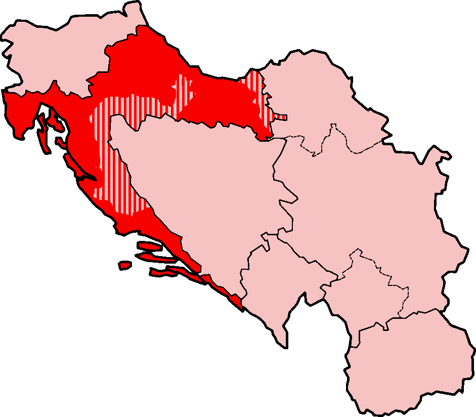 Map of Croatia under the Socialist Federal Republic of Yugoslavia from 1990 to 1991.